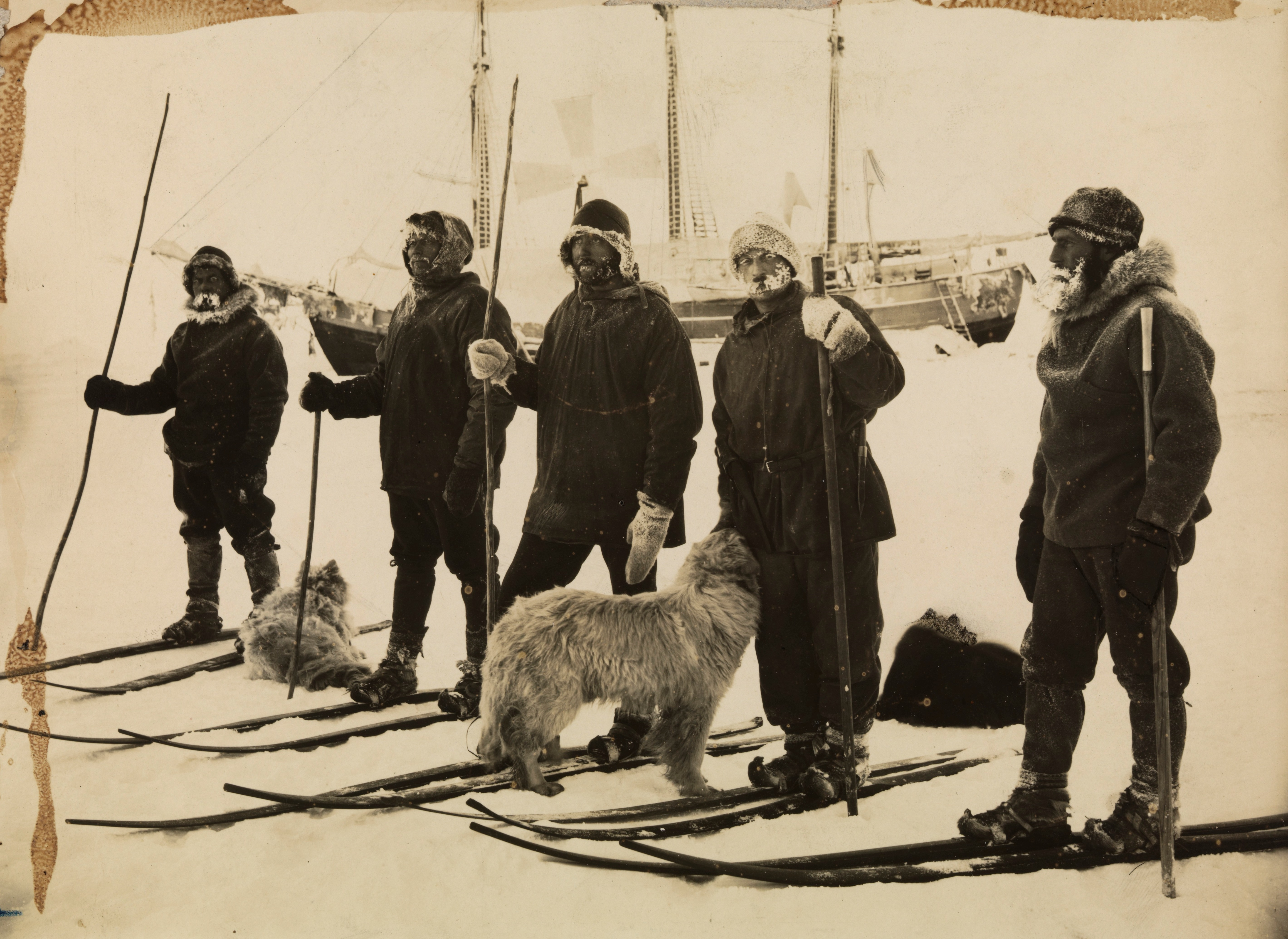 In front of the «Fram» in the ice. From the left: Anton Amundsen, Peder Leonard Hendriksen, Ivar Otto Irgens Mogstad, Henrik Greve Blessing, and Otto Neumann Knoph Sverdrup, on skis together with some of the dogs. One of the pictures from the expedition with arctic ship toward the North Pole in the period June 24, 1893 to August 13, 1896. According to the plan, the ship was to drift in the ice with the ocean current from the coast of Siberia across the North Pole to Greenland. The goal, to get to the North Pole, was not reached, but the scientific evidence gathered was of great importance to arctic research.